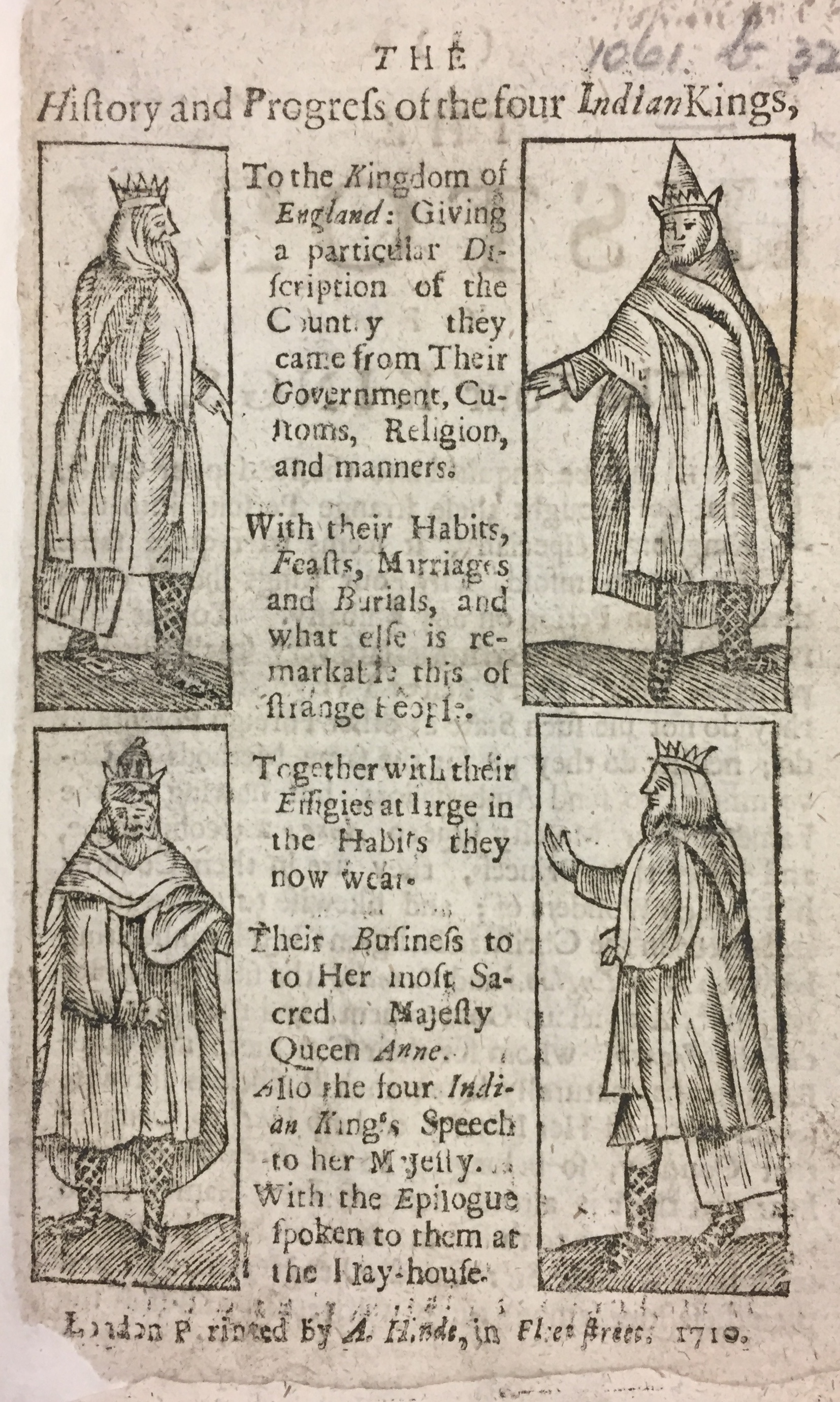 Housed at the British Library: The History and Progress of Four Indian Kings, London: A. Hinde (1710) [1061.b.32].